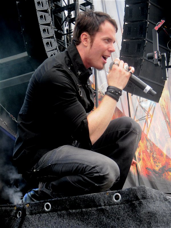 Tommy Karevik singing at the Bang Your Head!!! 2012 Festival (his third performance with Kamelot after the announcement that he would be the new lead singer).